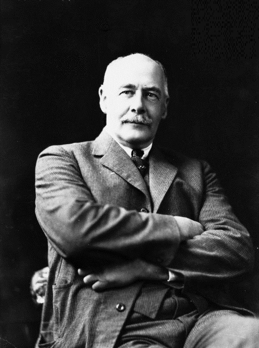 Seated portrait of Kenneth Stuart Williams, circa 1930